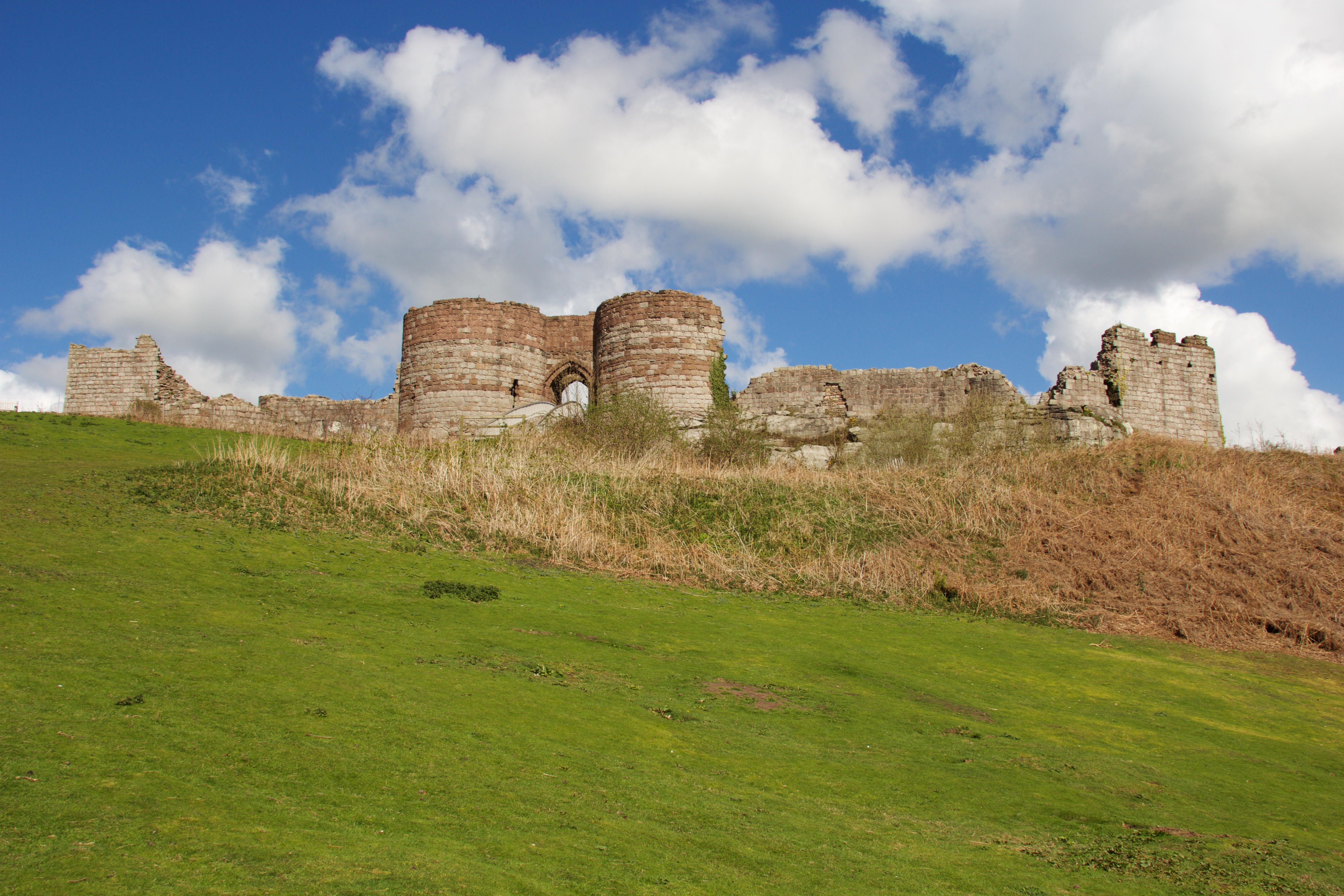 Beeston Castle, UK, in April 2016